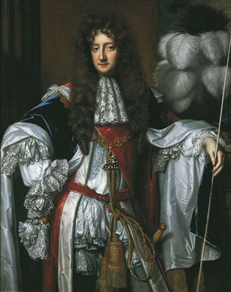 Portrait painting of King James II’s Lord High Treasurer the Earl of Rochester wearing shimmering robes, silver lace, a heavy wig and the insignia of the Order of the Garter.